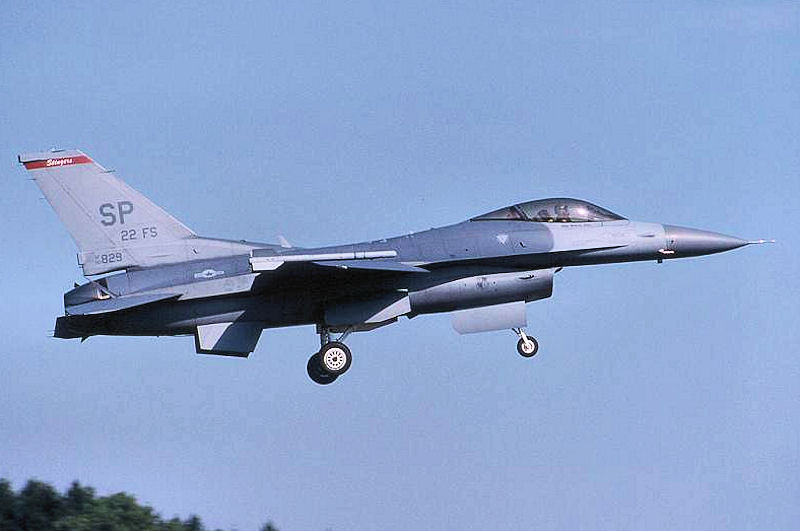 22d Fighter Squadron - General Dynamics F-16C Block 50B Fighting Falcon - 90-0829